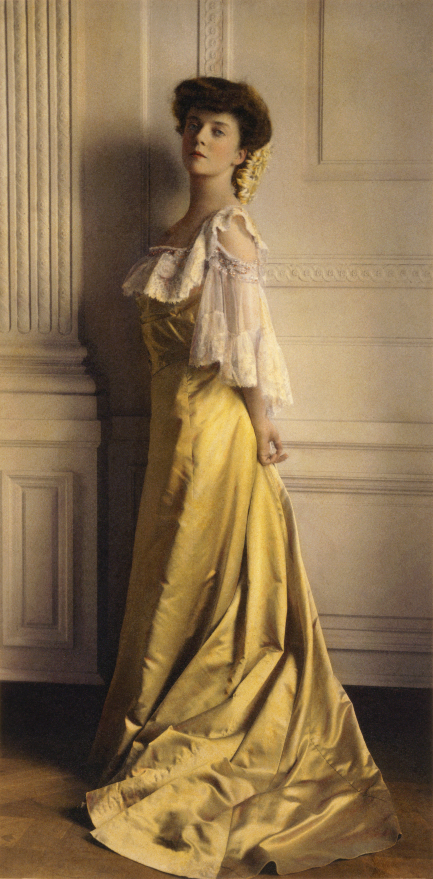 Hand-tinted photograph of Alice Roosevelt, taken 1903. A striking beauty, her outspokenness and antics won the hearts of the America people who nicknamed her "Princess Alice" Source Library of Congress/ LC-USZC4-6245, Public Domain